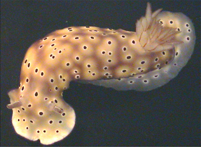 Photo of Hypselodoris tryoni (synonym: Risbecia tryoni) (Garrett, 1873) (Anthobranchia) – Queensland, Australia